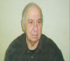 Mingrelian (Georgian) Poet